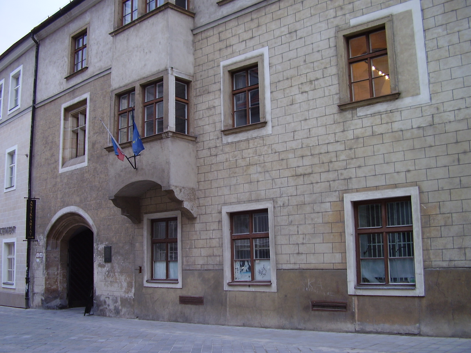 Bratislava city centre